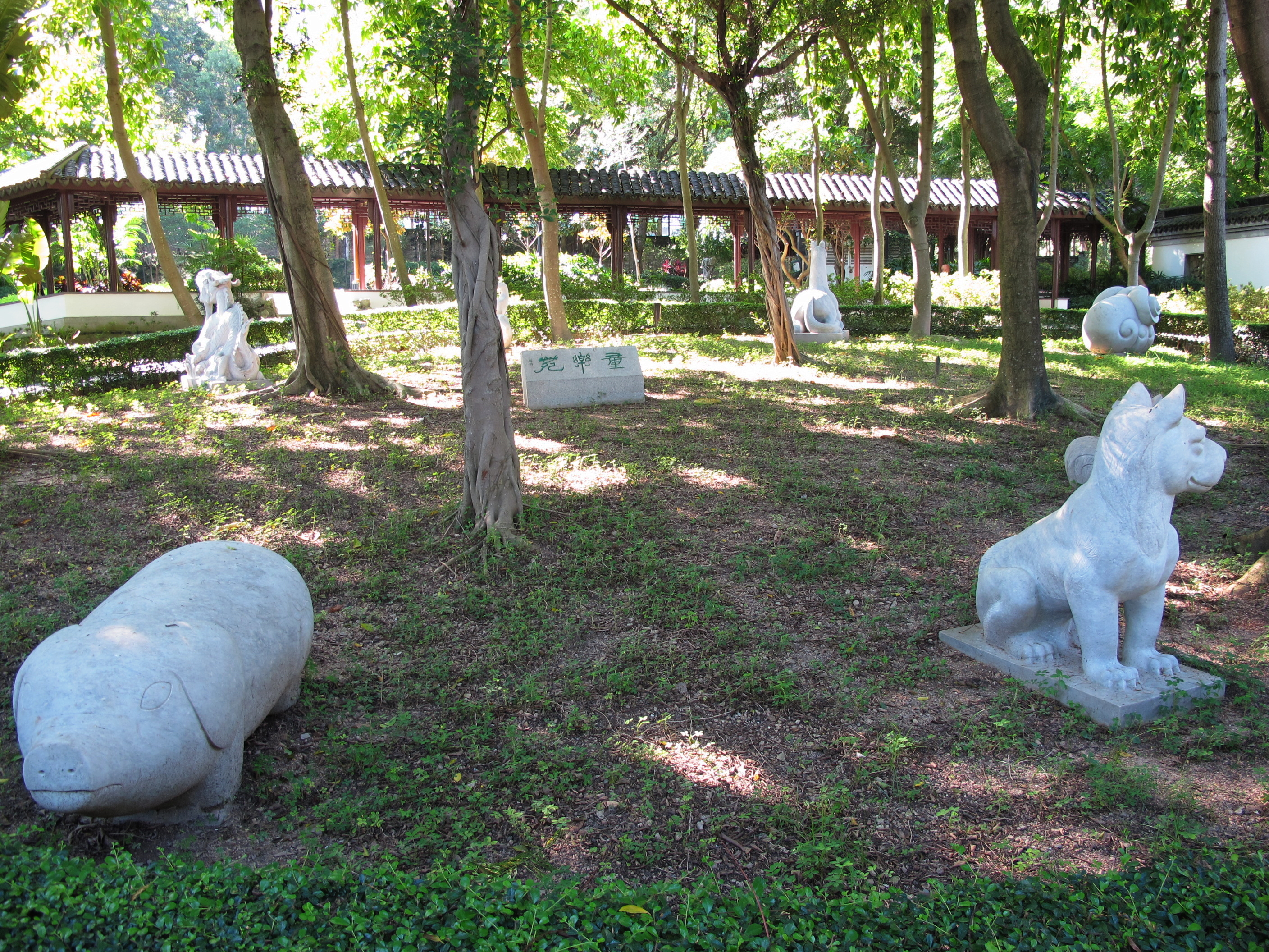 Kowloon Walled City Park Playground